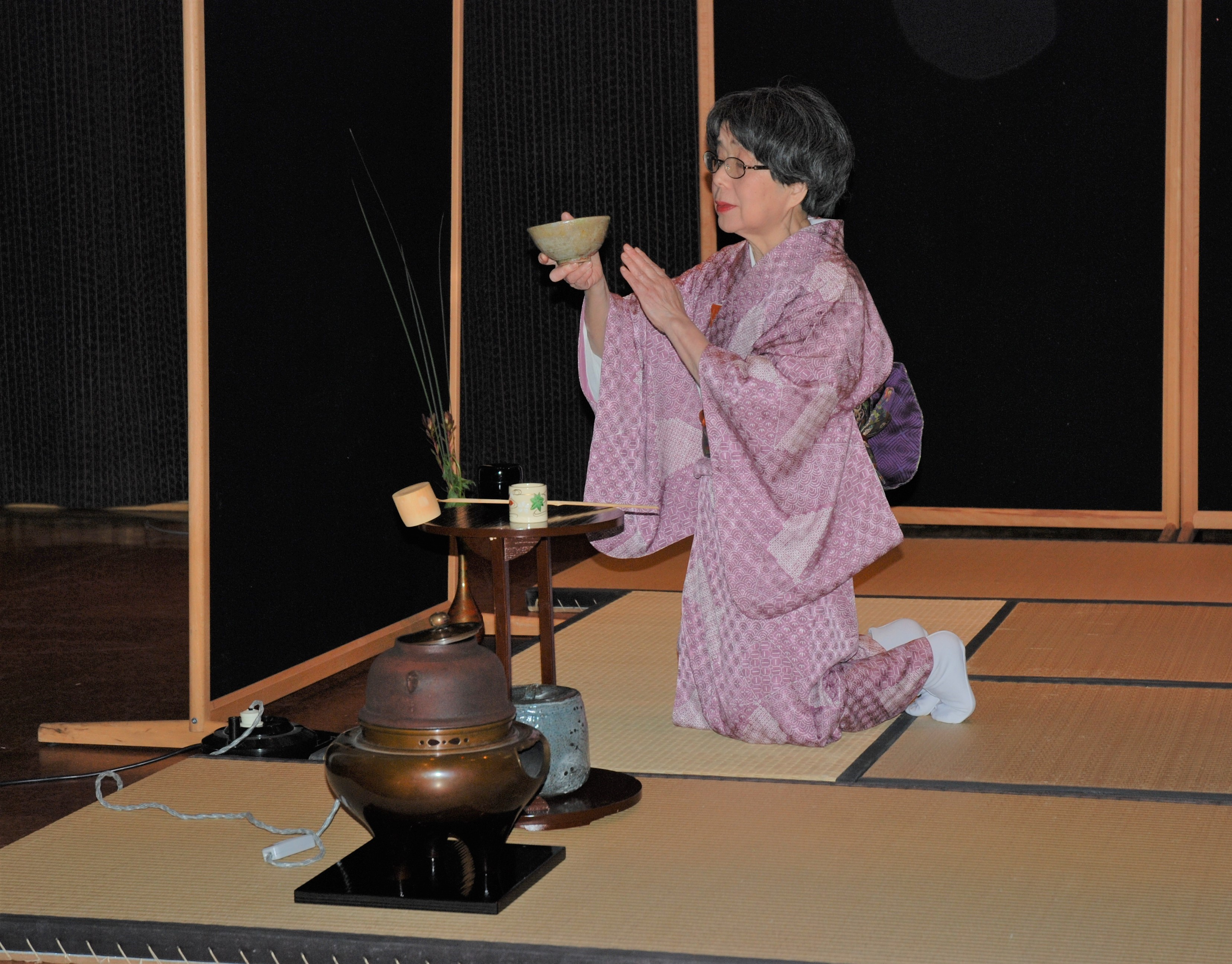 Eiko Duke-Soei, Swedish tea ceremony master, tea ceremony at the Museum of Ethnography in Stockholm, 2007.